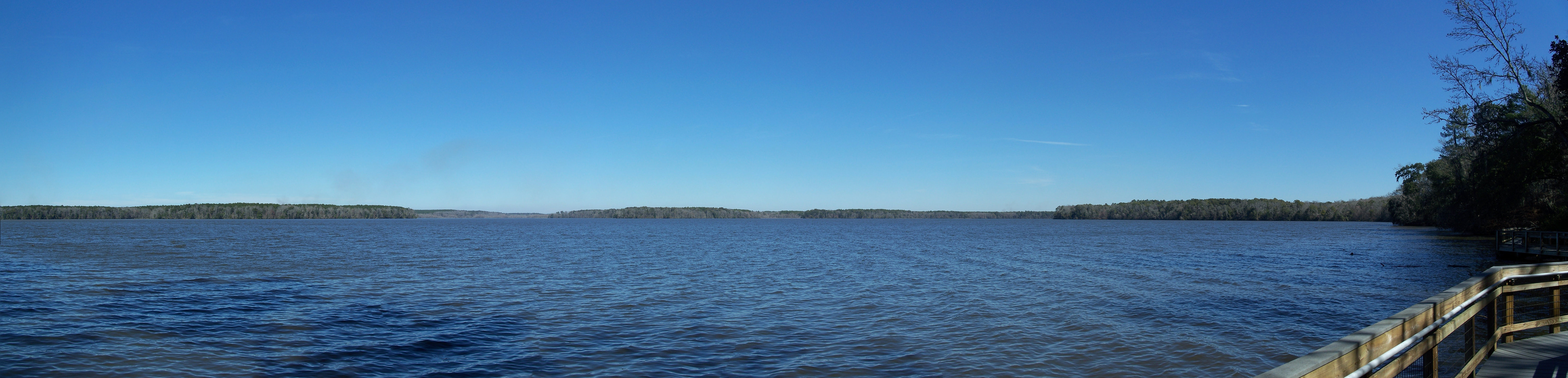 Lake Talquin State Park: Panorama of Lake Talquin